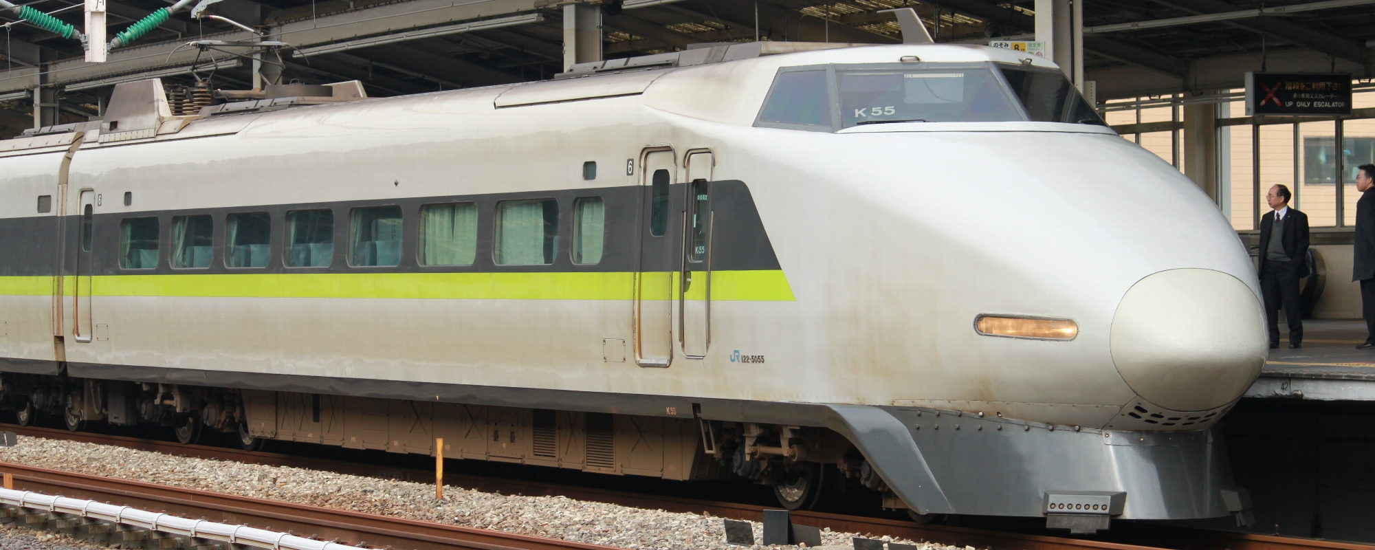 Shinkansen series 100(122-5055) in Nishi-Akashi Station